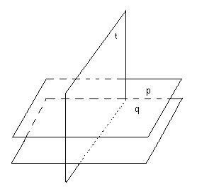 This is a pretty bad paint drawing of transversal planes but it was needed to complete my article